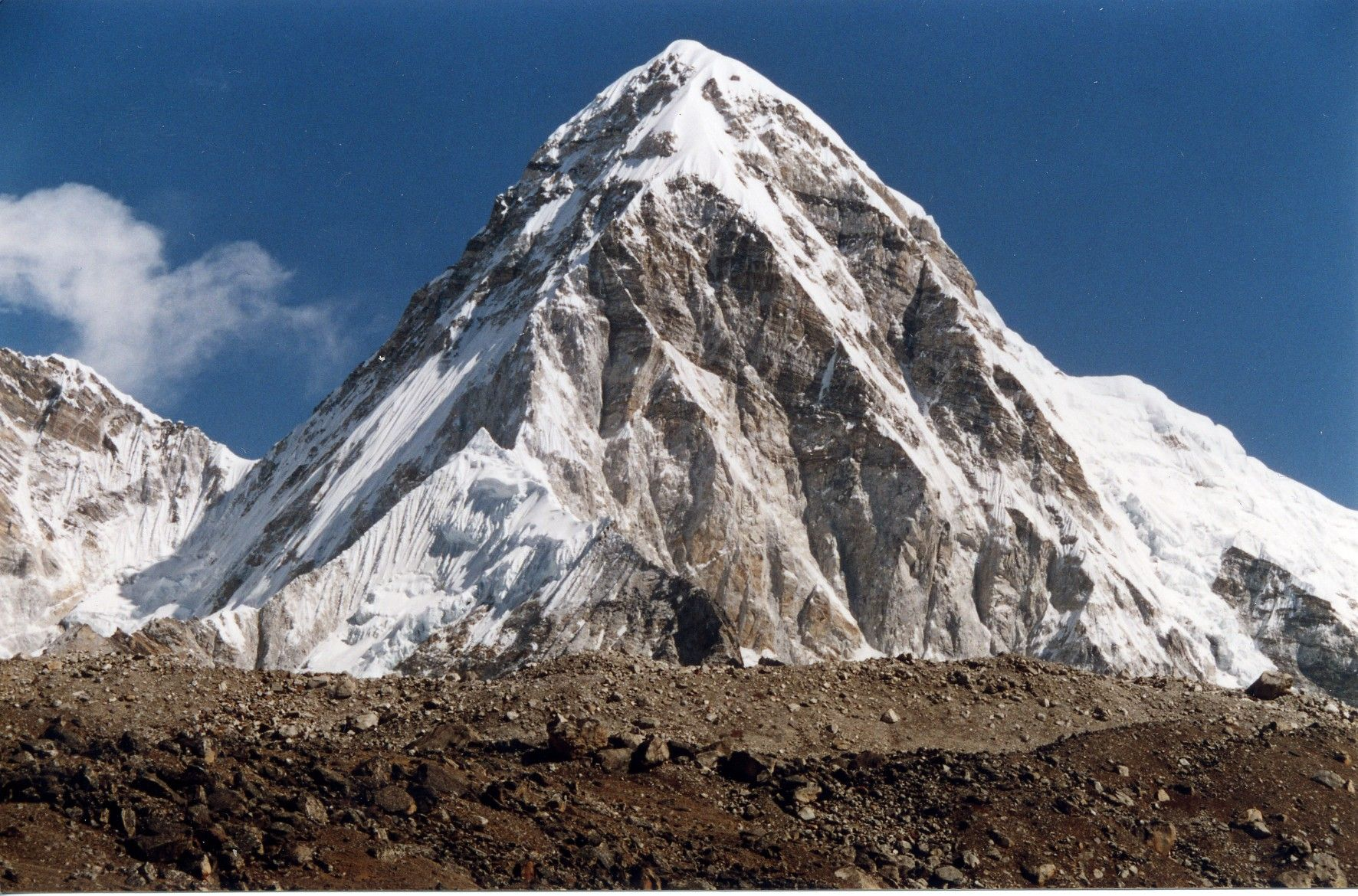 Pumori, mountain on the Tibet-China border. View from Kala Patthar